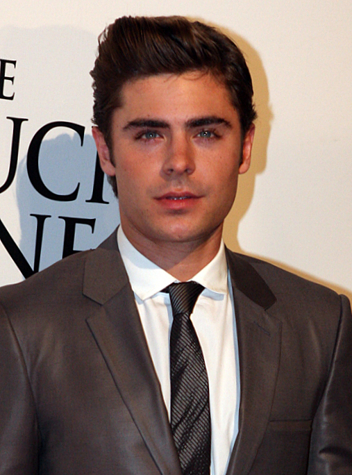 Zac Efron: The Lucky One, Australian Premiere in Sydney, Australia, June 2012.